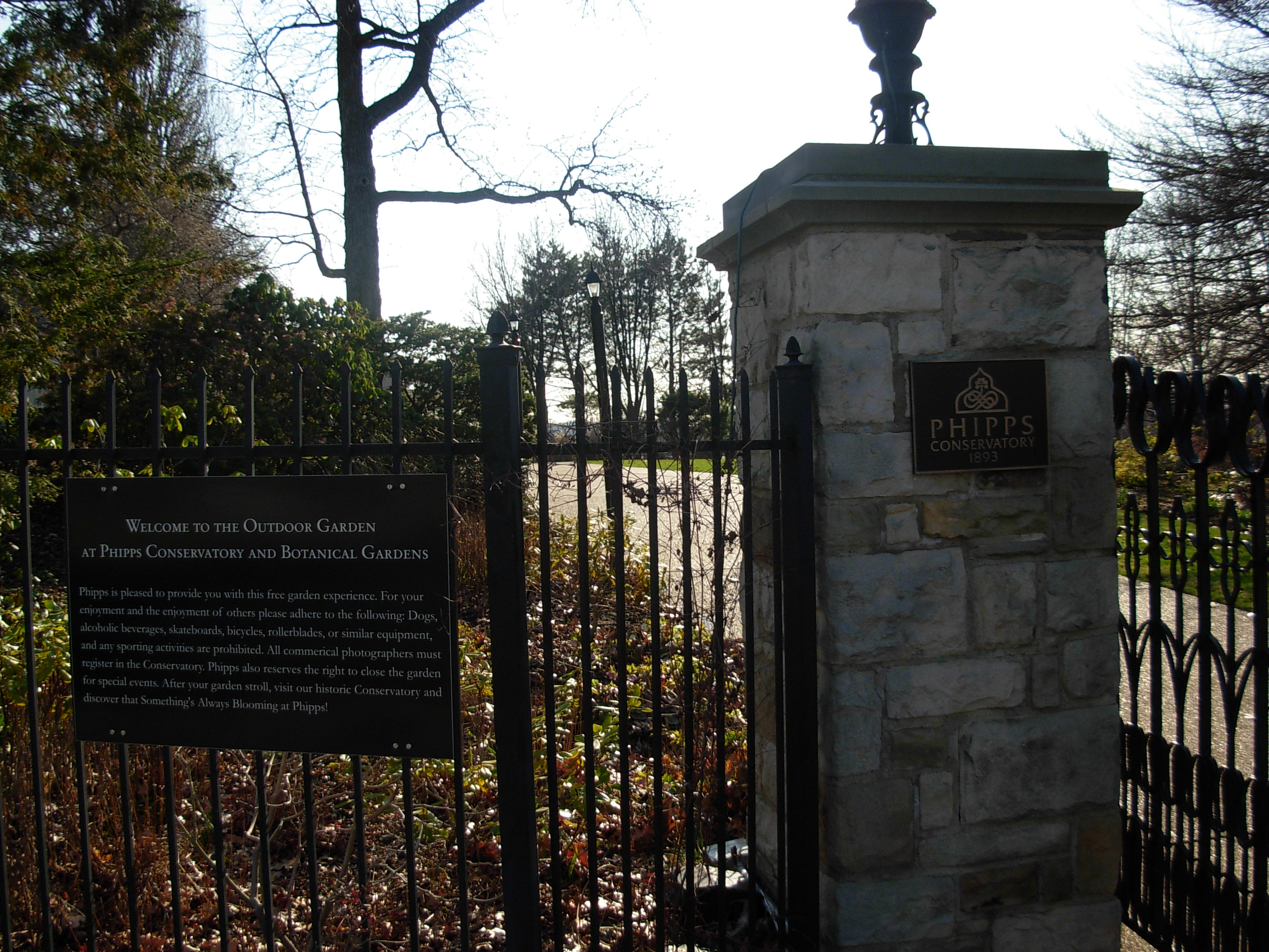 Gate to the outdoor gardens.